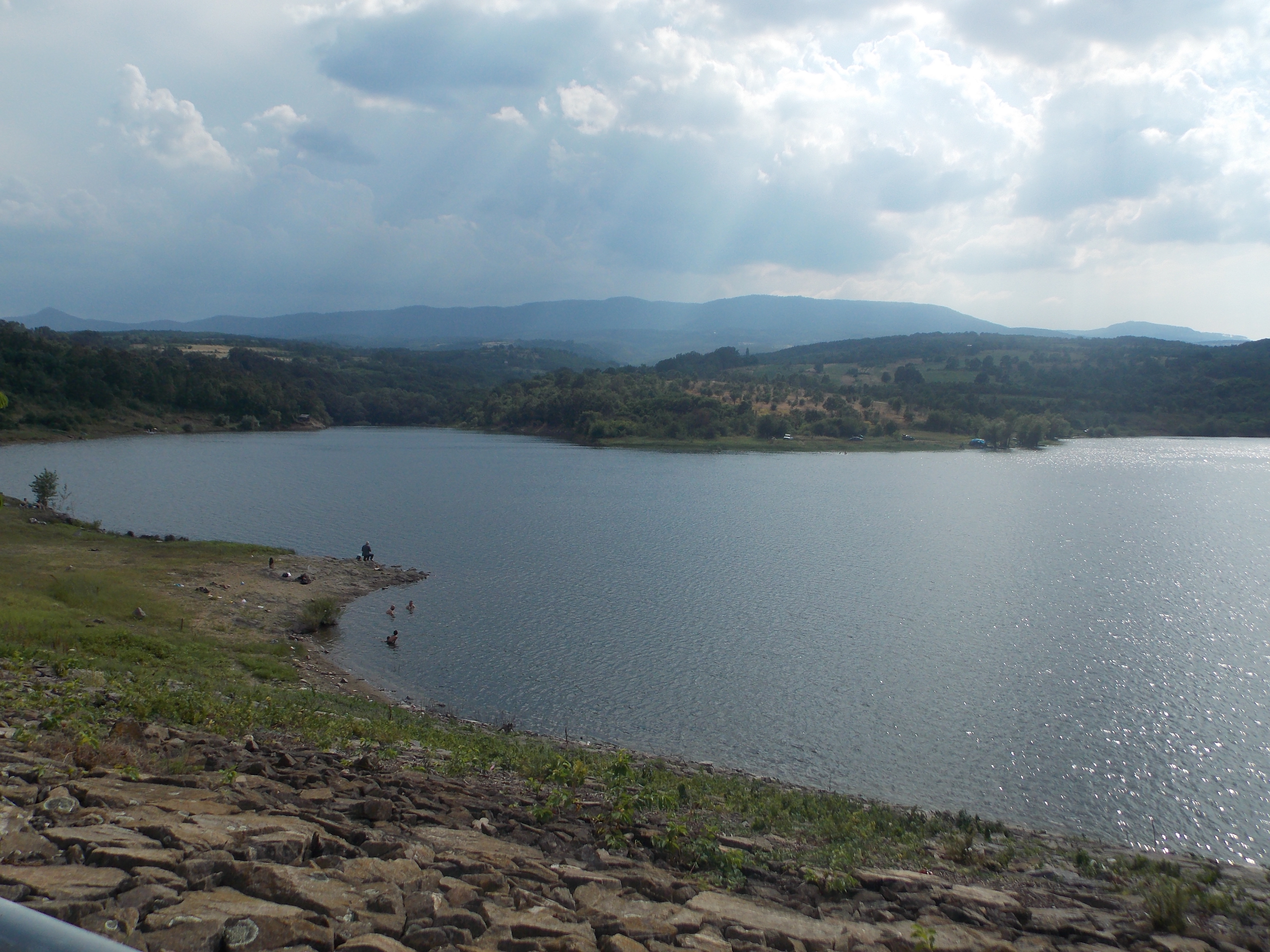 Brestovačko jezero